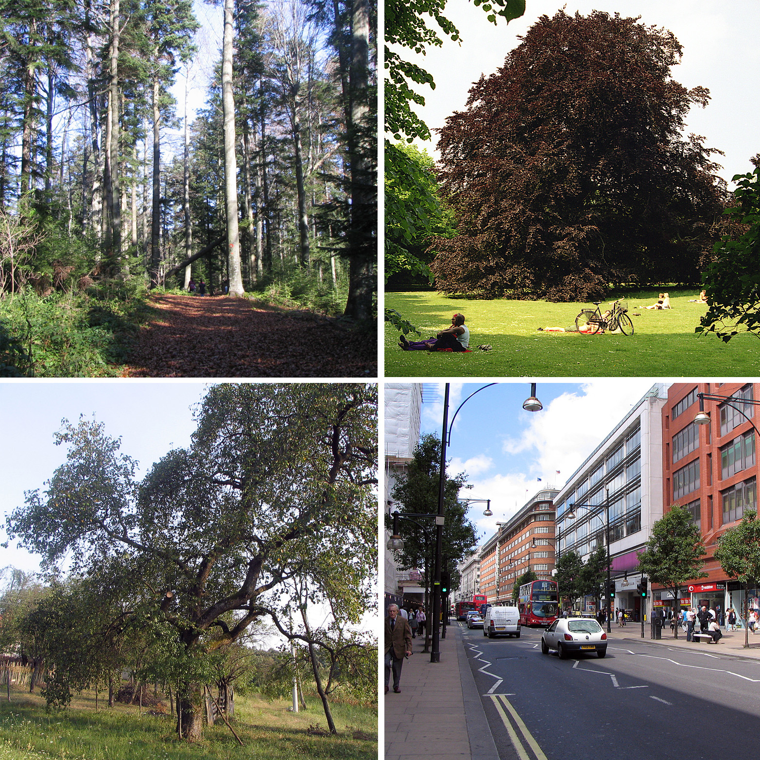 Dendrology illustration